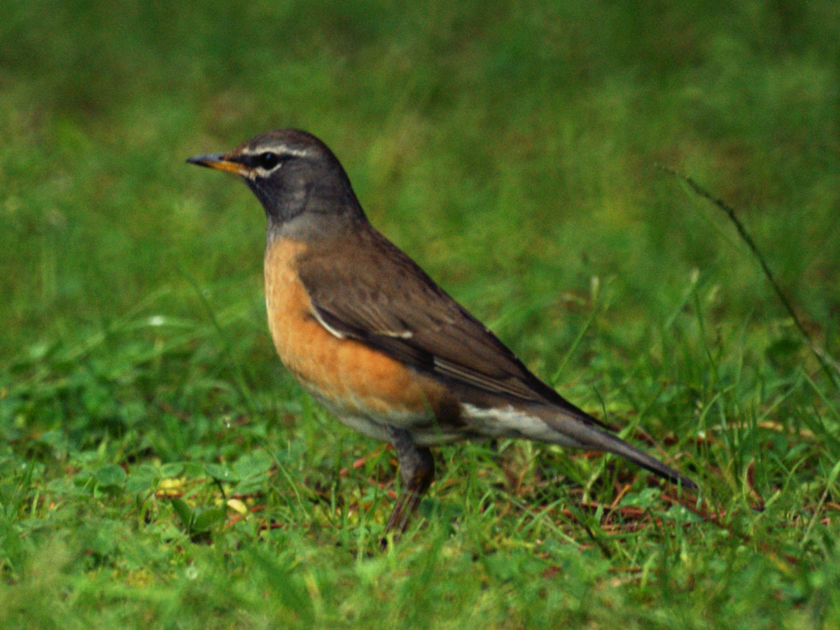 Turdus obscurus